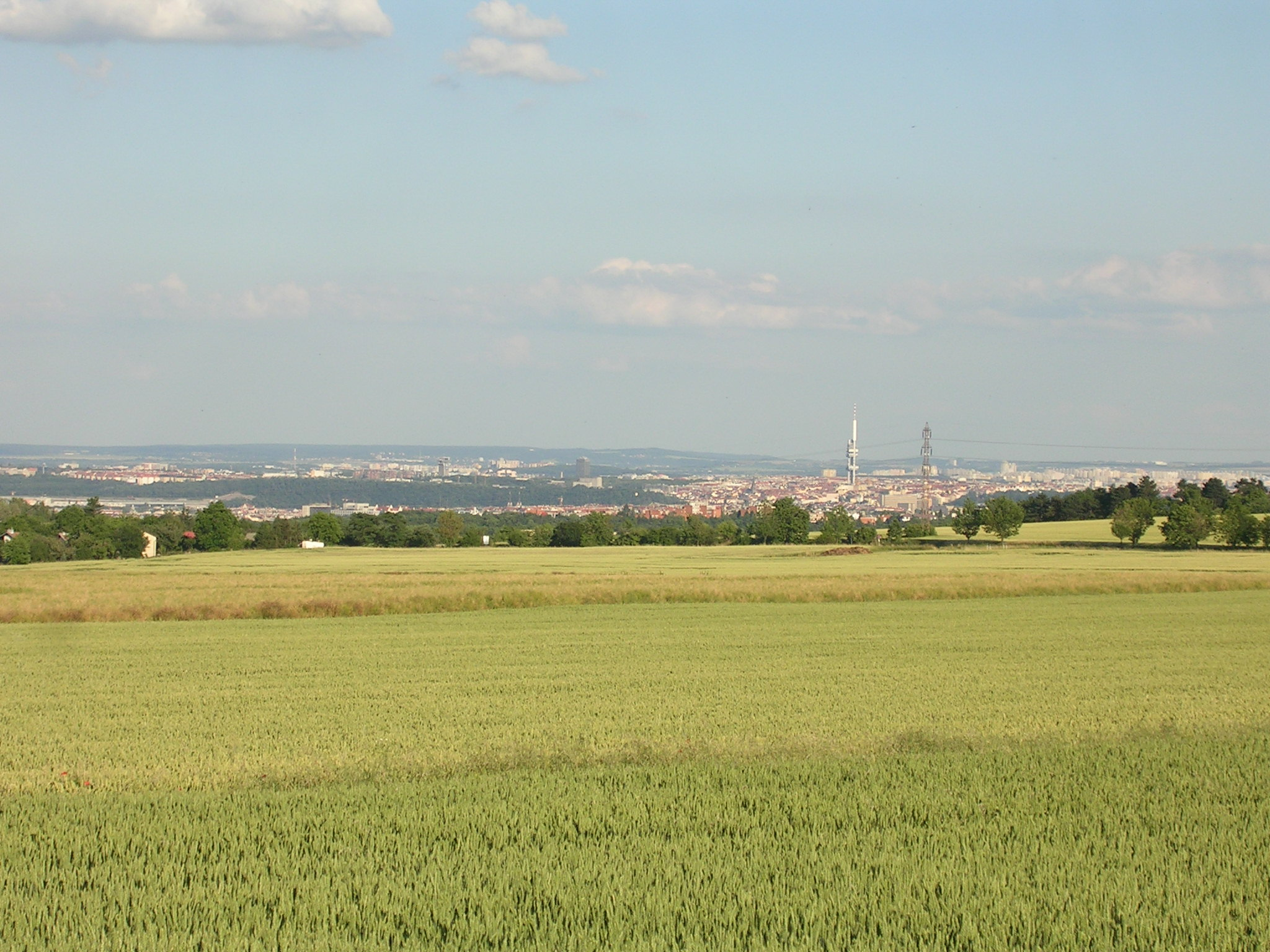 Prague, the Czech Republic.